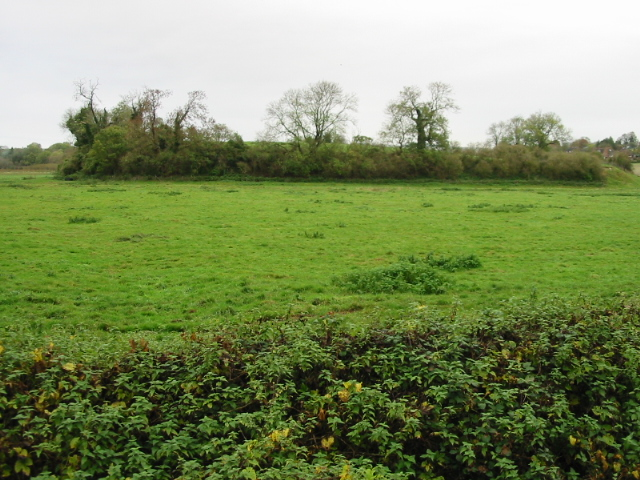 Southern edge of Burpham Saxon Burgh